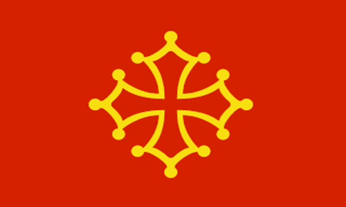 Flag of Midi-Pyrénées